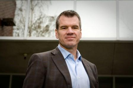 Gary Steele, Proofpoint CEO